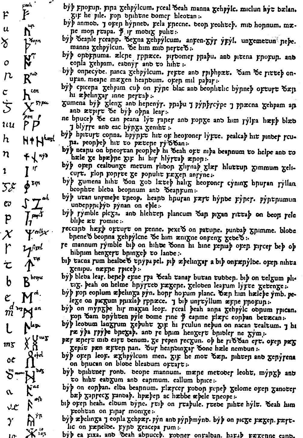 Copy of the Anglo-Saxon rune poem in George Hickes' "Linguarum veterum septentrionalium thesaurus grammatico-criticus et archæologicus" (Oxford, 1705), copied from Cotton MS Otho B.x folios 165a-165b, which was destroyed in the 1731 fire. Note that in this scan image, the lower end of the page is missing, cutting off the end of stanza 28 (ior) and stanza 29 (ear).